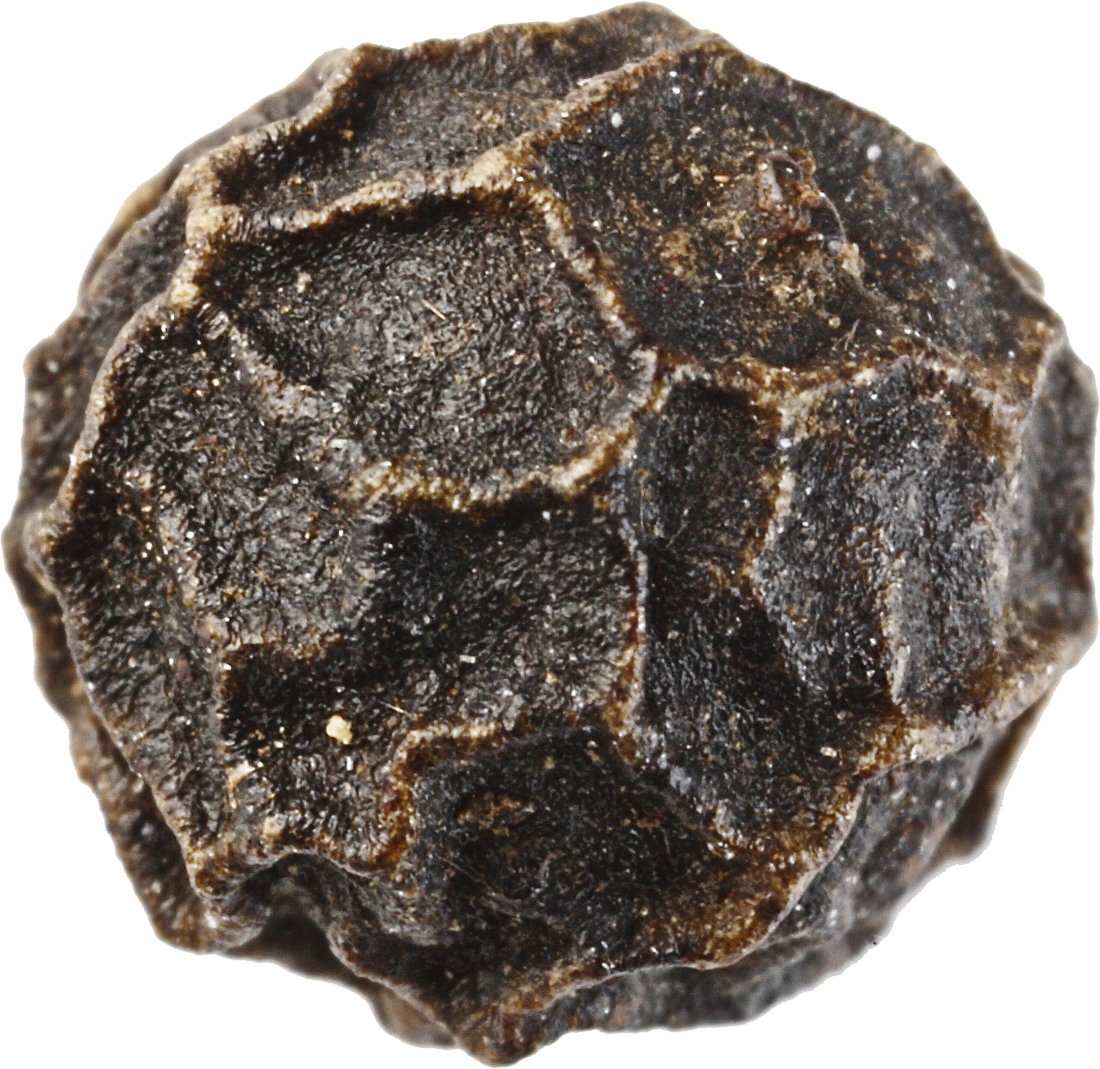 Close up image of a peppercorn